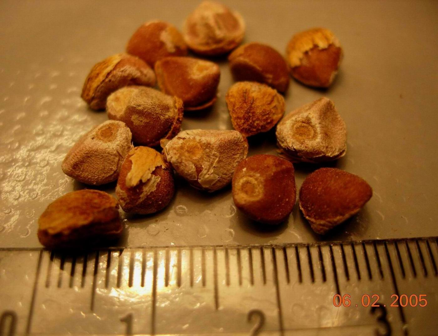 Argyreia nervosa seeds